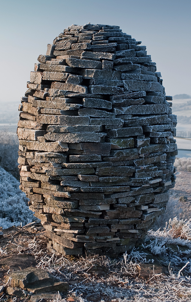 This is a photo of Richard Shilling's Clougha Egg Cairn, built in October 2008